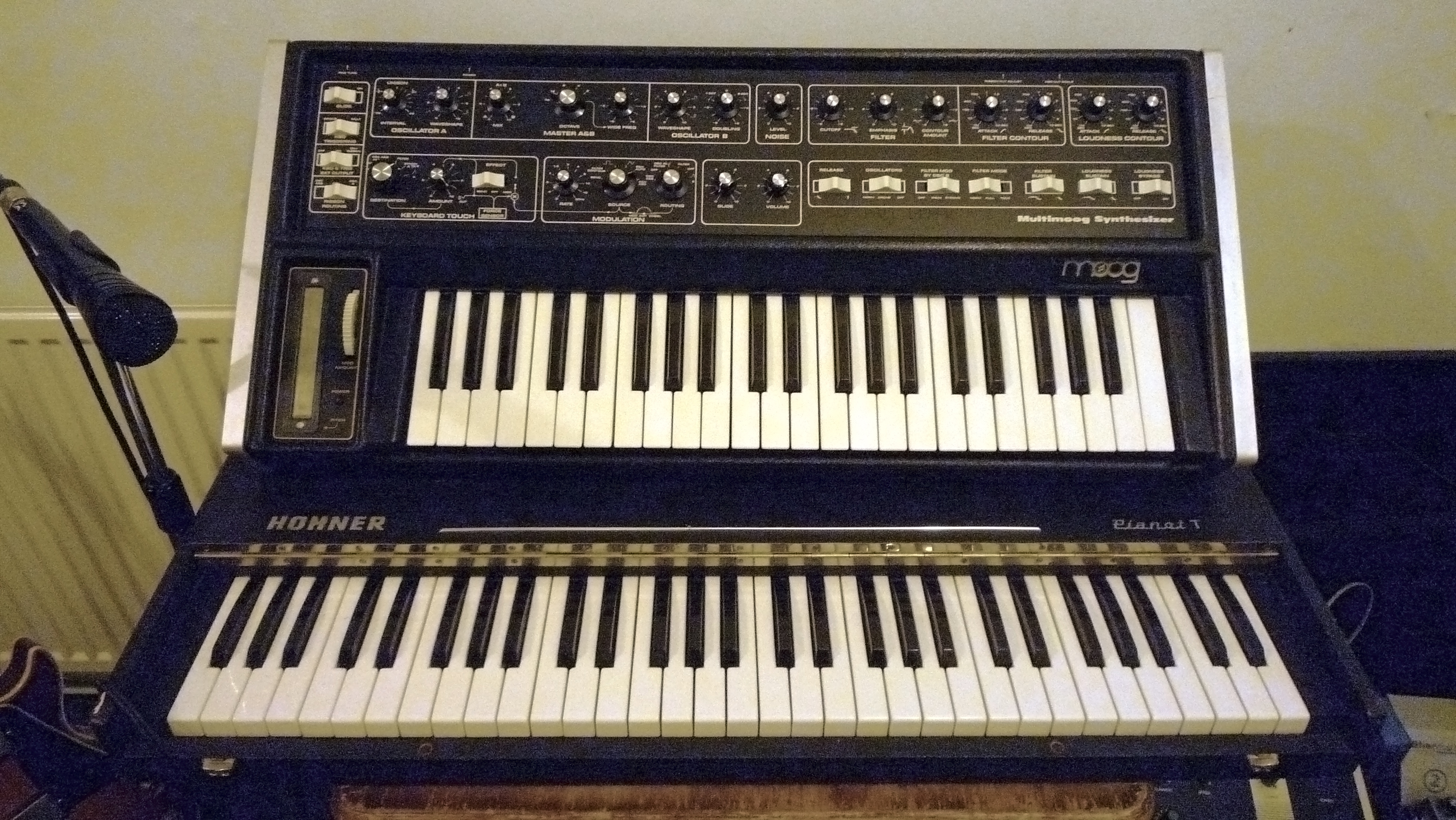 Here is the Multimoog that Tony Allgood repaired for me, sitting proudly and prog style on top of my Hohner Pianet. No, they never go out of tune.